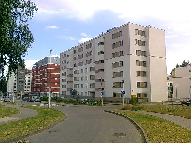 Onyksowa Street in Lublin, Poland, July 2013